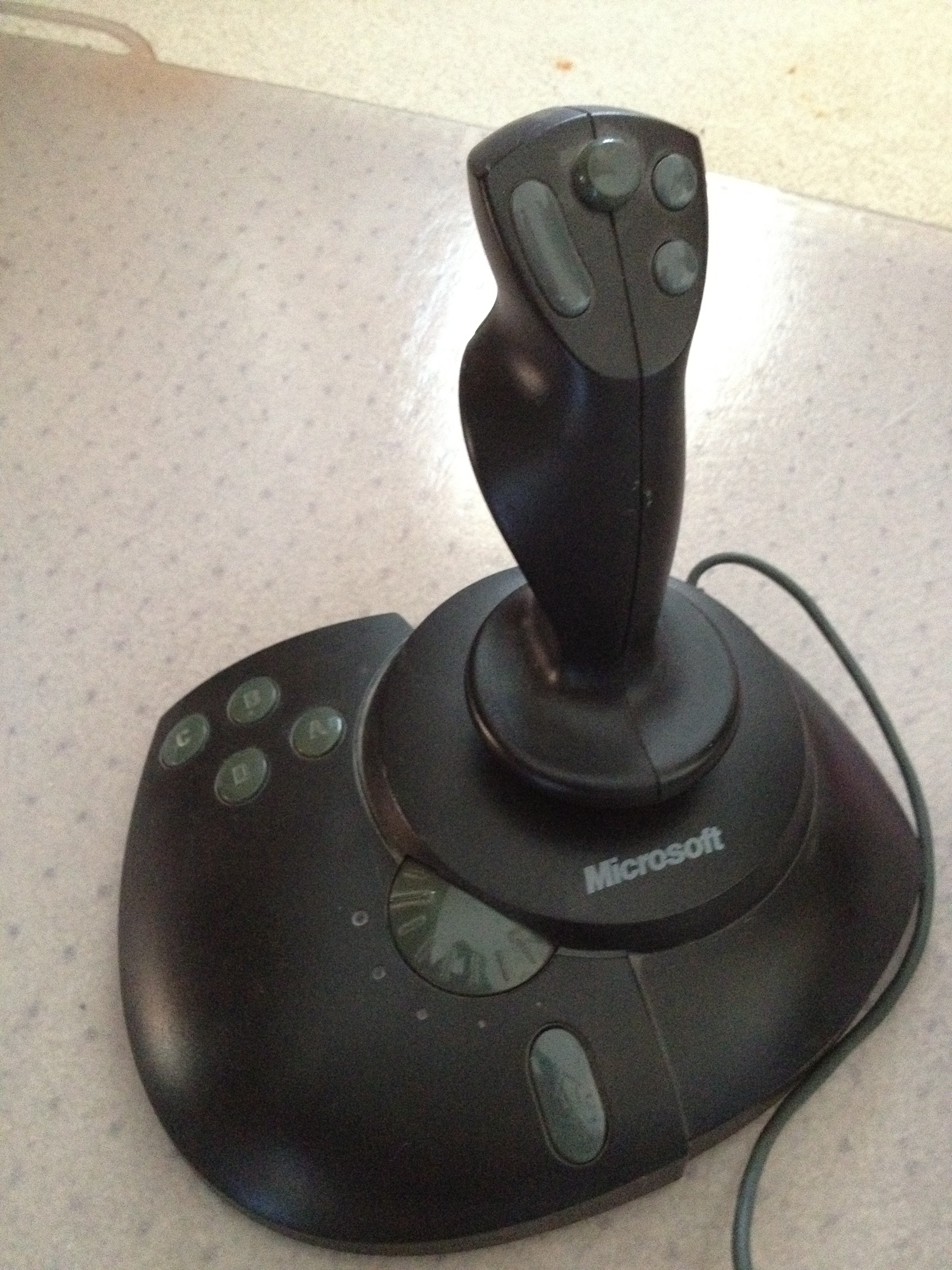 This is an image of the Microsoft Precision Pro joystick. The "hat" switch is visible at the top of the handle. and the throttle dial at the bottom.